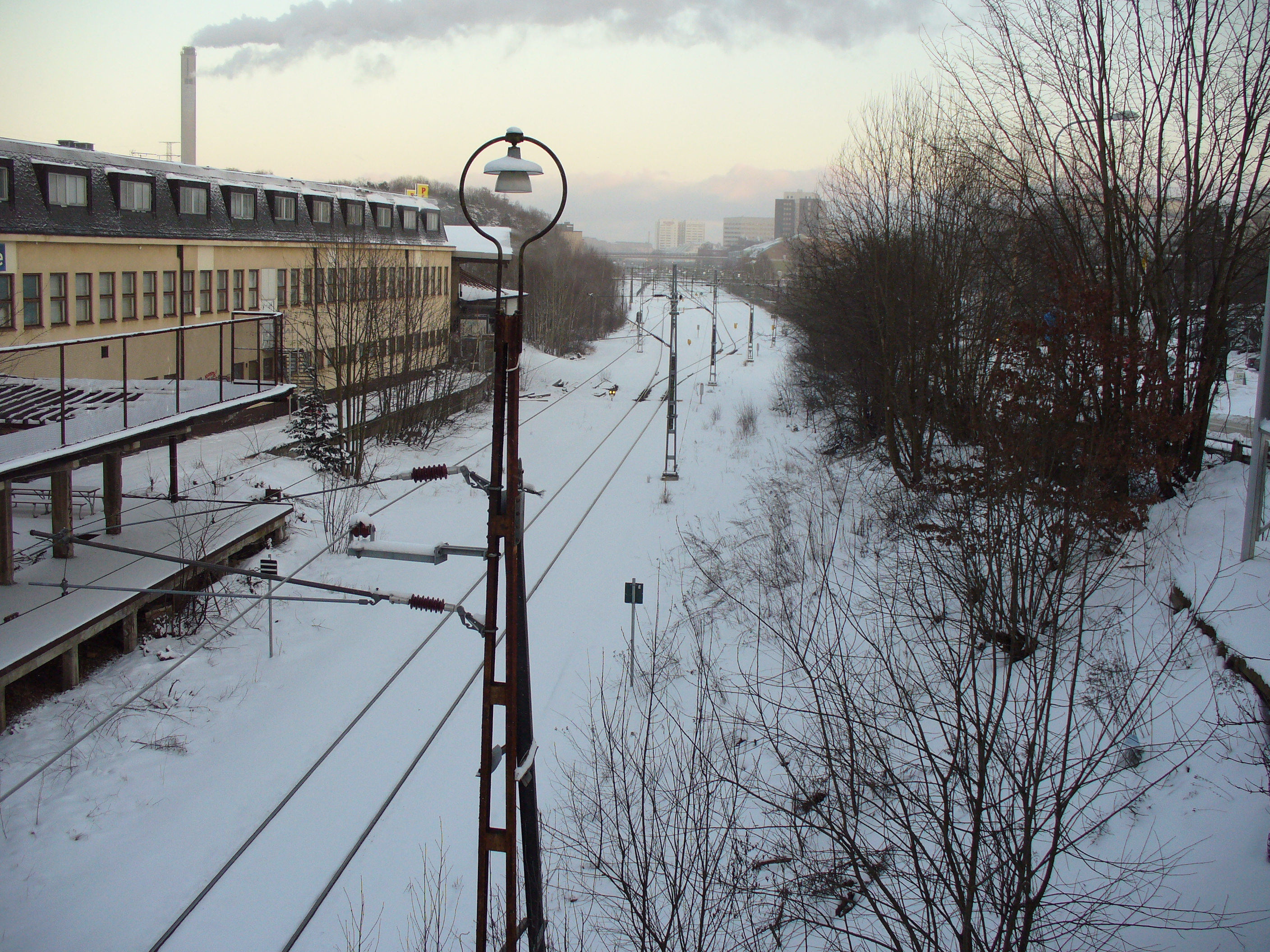 Värtabanan, a railroad in Stockholm, at Storängsbotten neighbourhood.